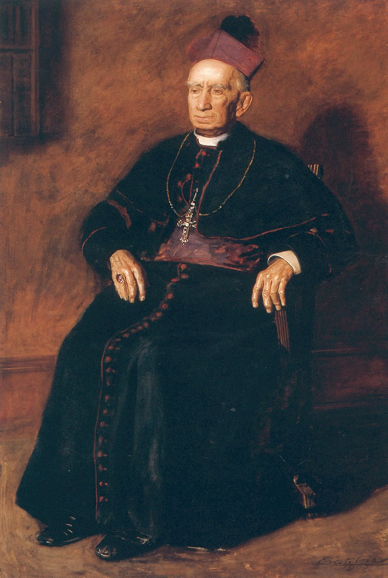 Portrait of Archbishop William Henry Elder